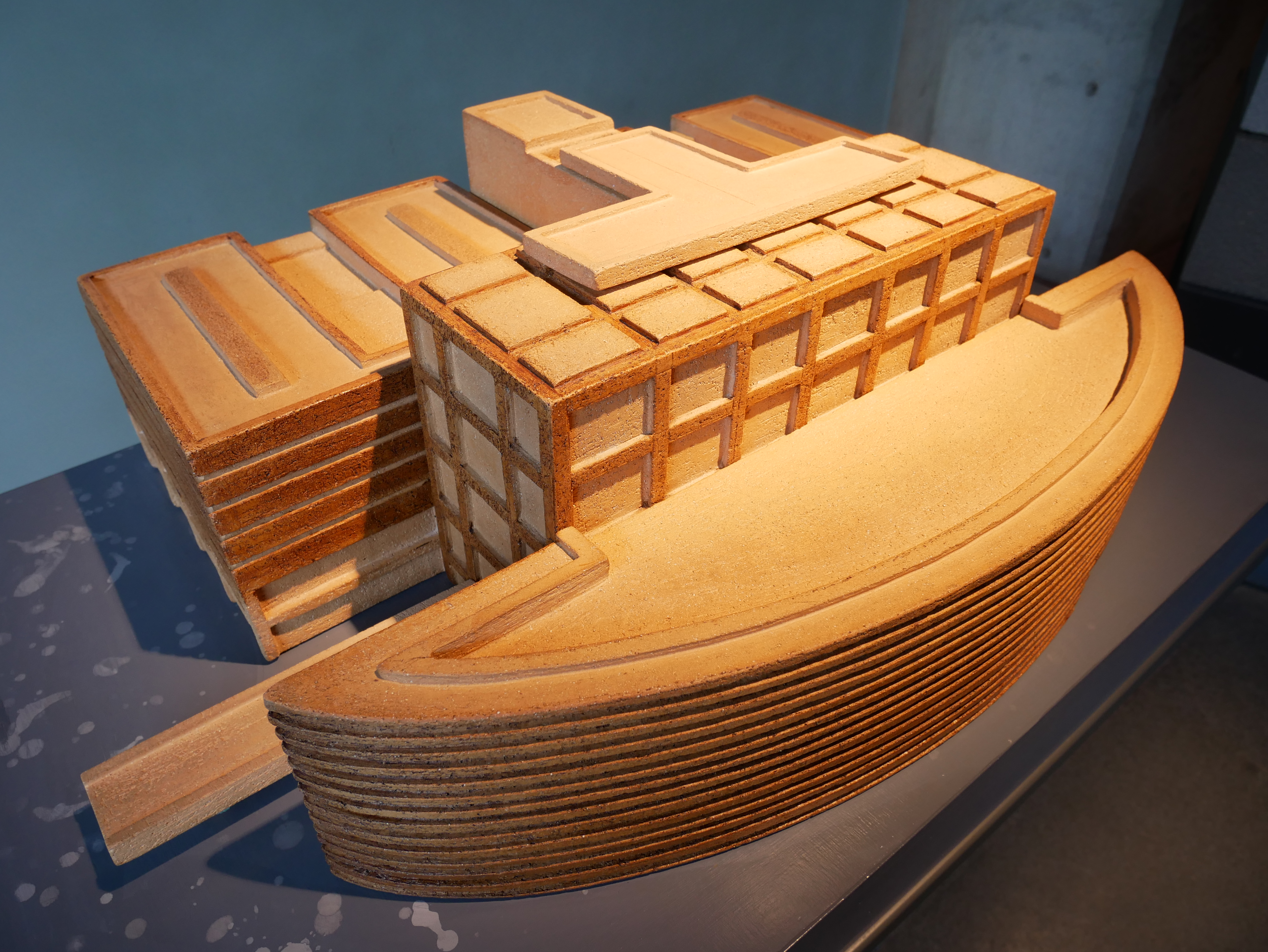 新北市立鶯歌陶瓷博物館模型，新北市鶯歌區南靖里